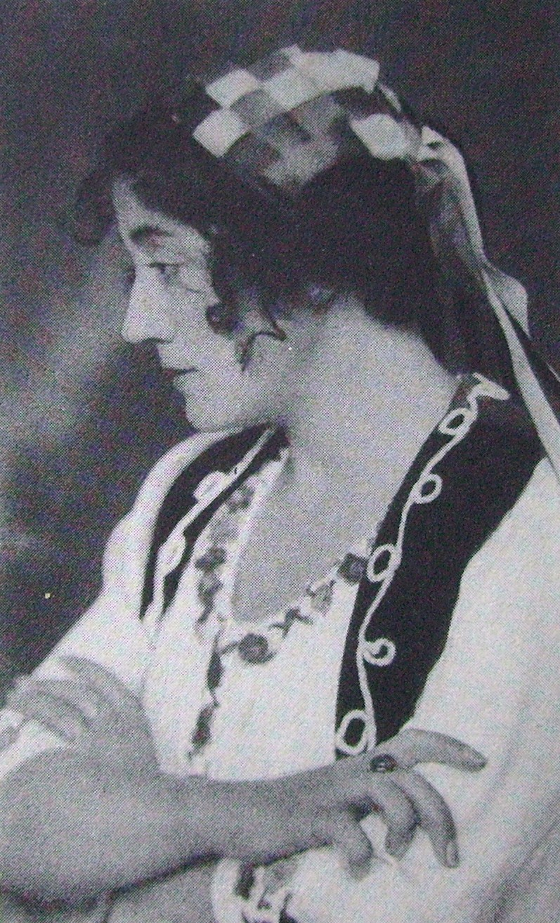 Picture of Naima Wifstrand, Swedish actor